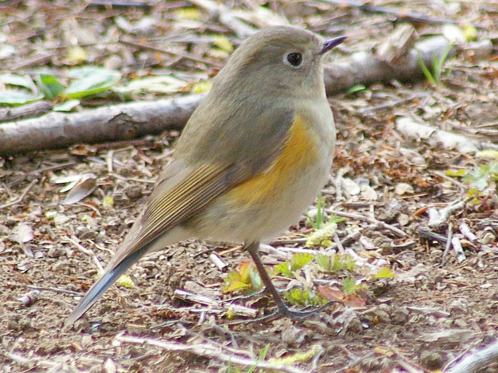 Red-flanked Bluetail Tarsiger cyanurus female (ruribitaki). Japan, Tsukuba (wild) 2007